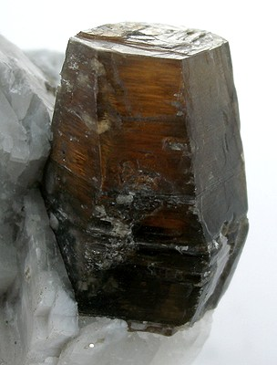 Calcite, Phlogopite Locality: Franklin, Franklin Mining District, Sussex County, New Jersey, USA (Locality at ) Size: small cabinet, 8.6 x 7.1 x 6.4 cm Phlogopite in Calcite Franklin minerals do not tend to be, very often, what you could call "gemmy." Even by a stretch. Most muscovite I have seen from there follows this rule of thumb, and although they have fantastic barrel-shaped form, tend to be dark and opaque. This specimen, which I got from Phil Scalisi's collection last year, stunned me. It is the quality of gem muscovite from Afghanistan which we see very rarely come out, but this is from Franklin, 100%. It is beautiful, and a significant Franklin specimen, AND just a really fine muscovite crystal by any standard. The crystal is complete all around and measures 3 x 2 x 2 cm. It has been very carefully excavated from calcite matrix to display this robustly atop a natural perch. These photos show it with MINIMAL backlighting. With a closer light, it glows more deeply, and a more golden hue. Scalisi said he obtained it decades ago from Ward's Science Est., who had it from an old collection at the time.